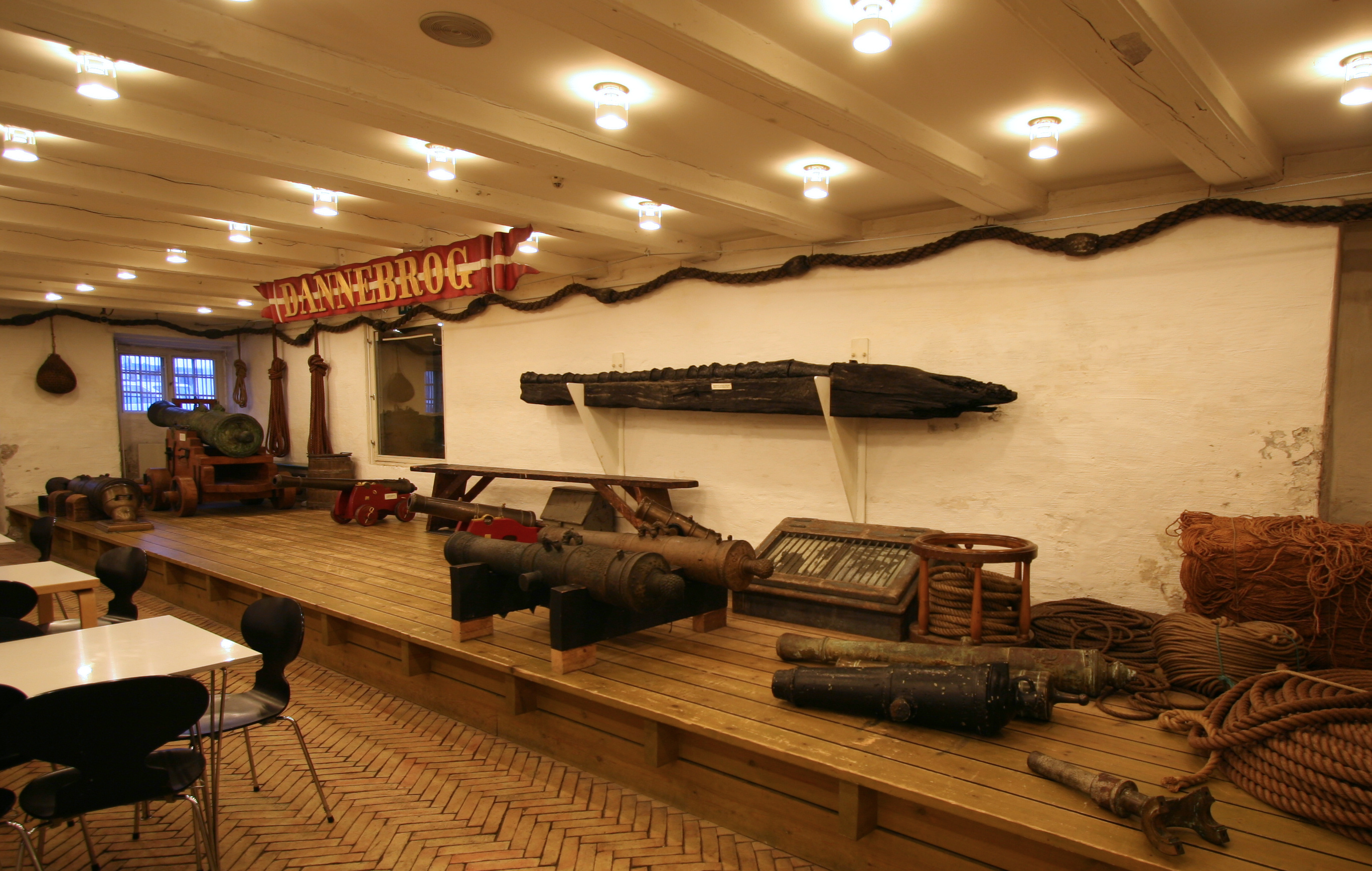 Orlogsmuseet, The Royal Danish Naval Museum in Copenhagen. Canons in the basement. Kanoner i kælderen.